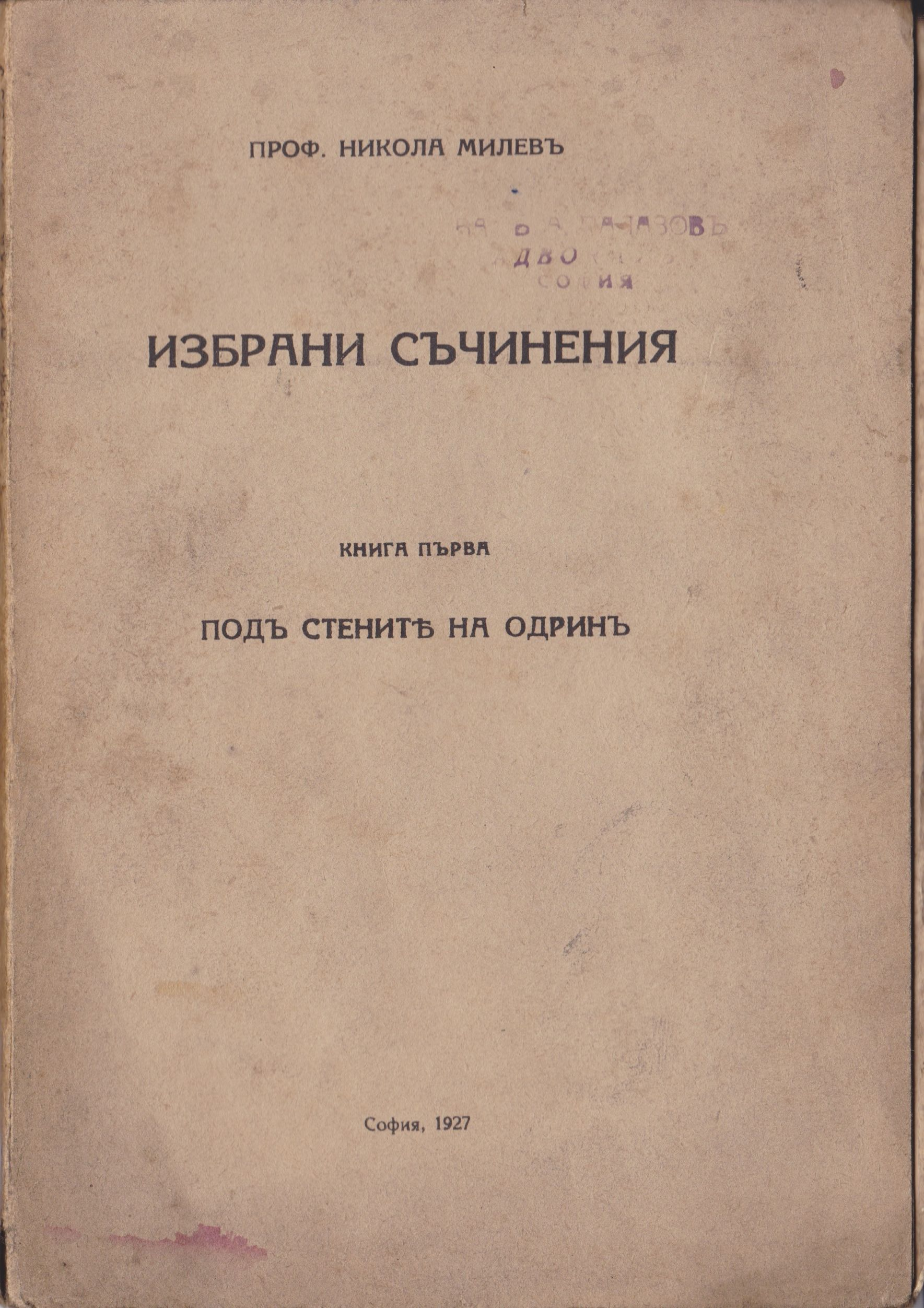 Under the Walls of Adranople